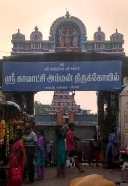 Mangadu kamatchiamman temple மாங்காடு காமாட்சியம்மன் கோயில்